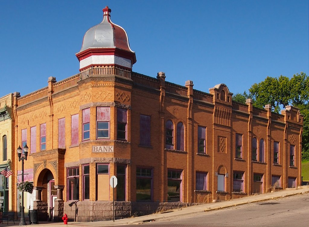 Chippewa County Bank, Montevideo, Minnesota, USA. Viewed from the southwest.